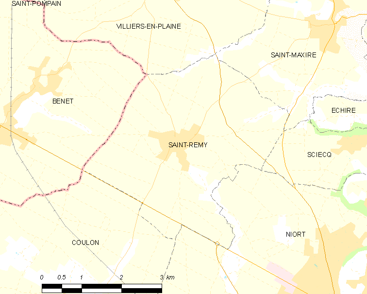 Map of French municipality Saint-Rémy